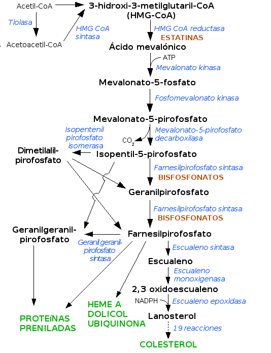 HMG-CoA reductase pathway, in Spanish language (translated from the similar already existing figure in commons)